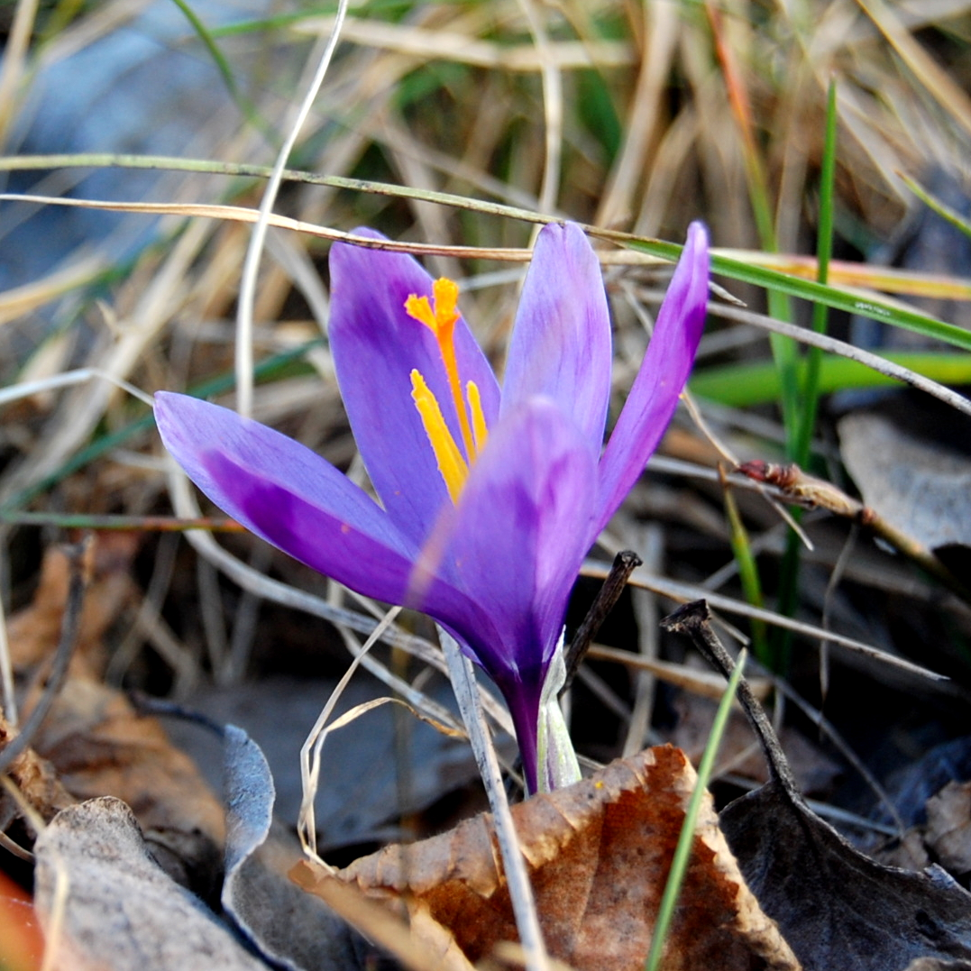 Spring Crocus. (Višnja Gora, Slovenia, 2008)